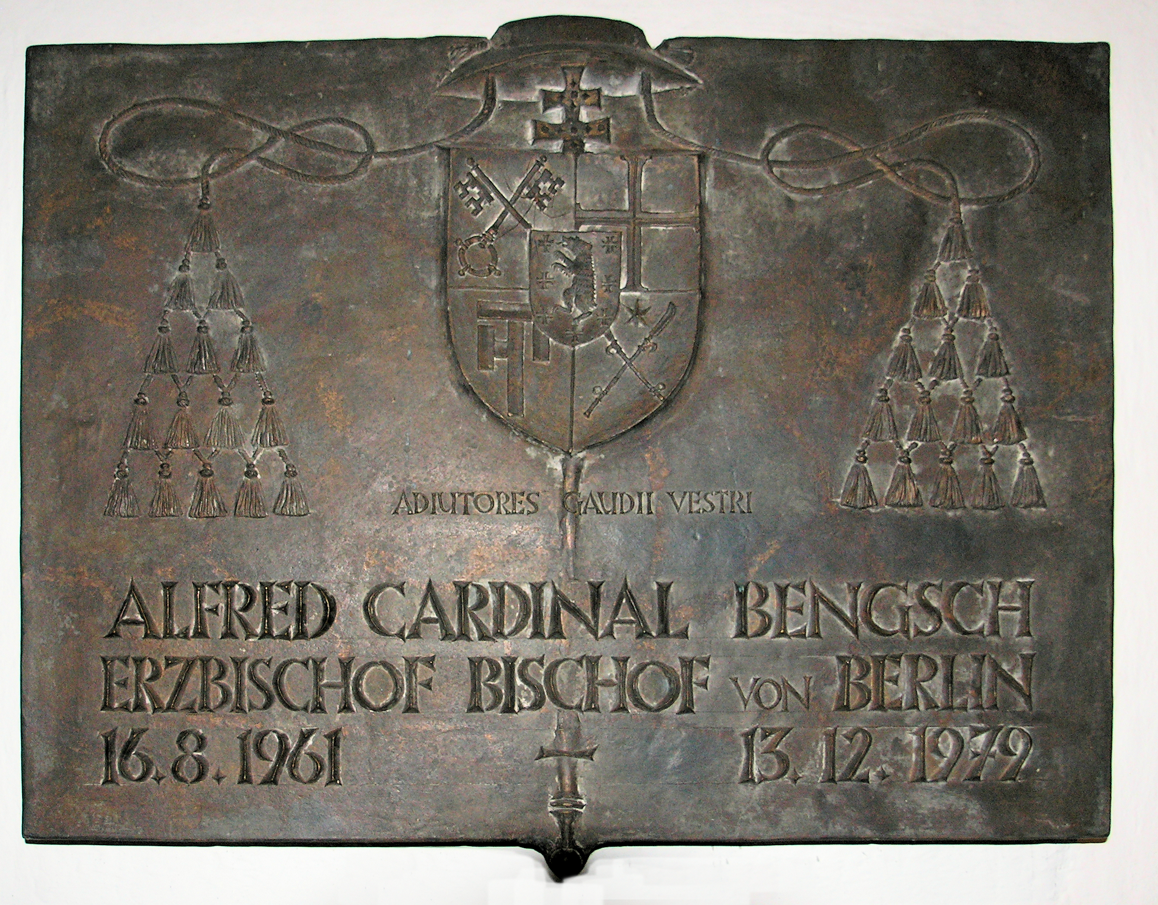 Grave marker for Alfred Bengsch in St Hedwig Cathedral Berlin (address: Hinter der Katholischen Kirche 3, Berlin-Mitte, Germany)